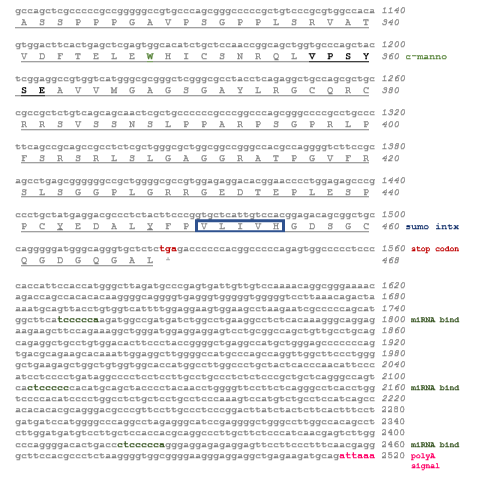 TMEm151A Annotated Protein Part II